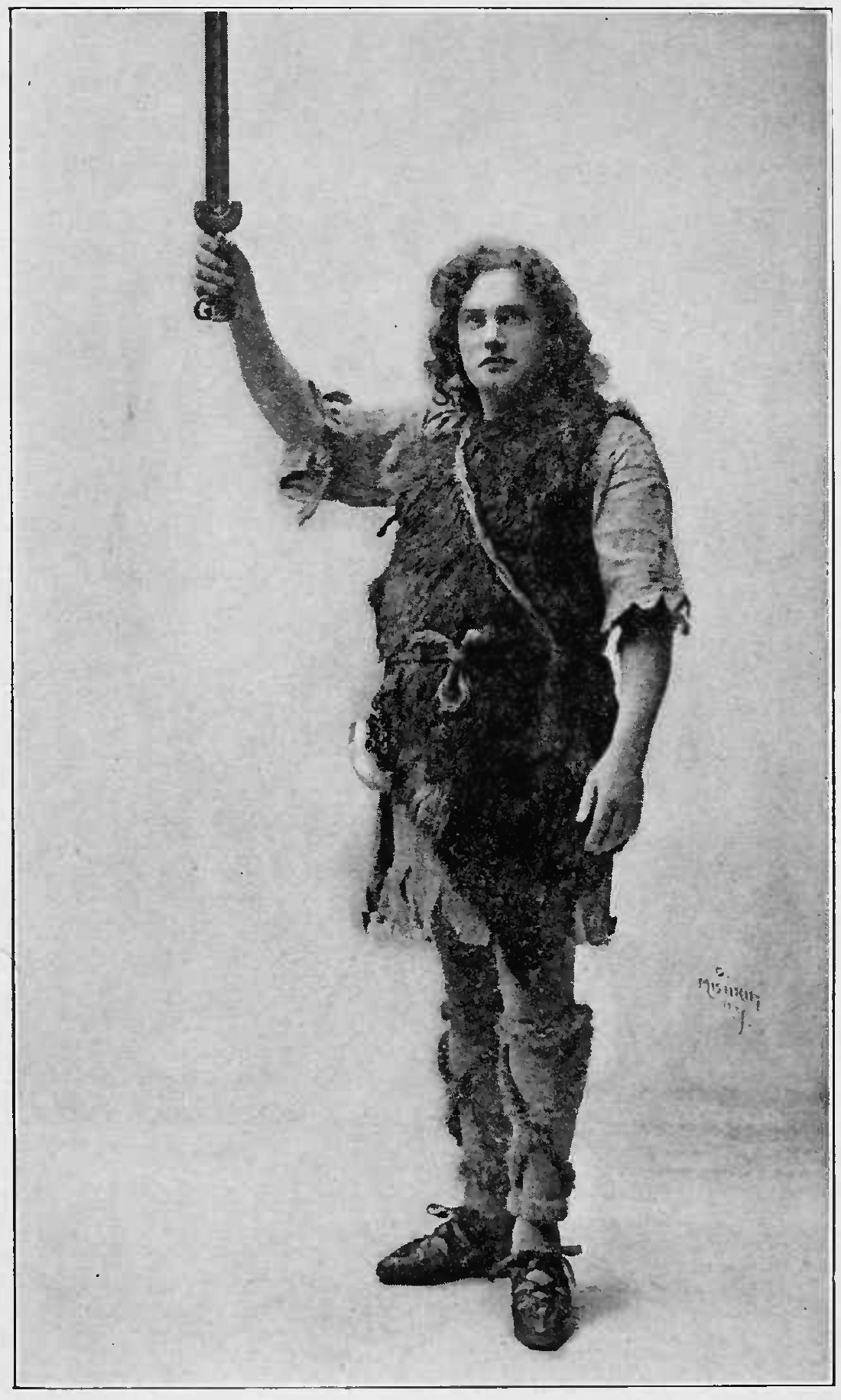 Captioned as "Siegfried and the Famous Sword Balmung".